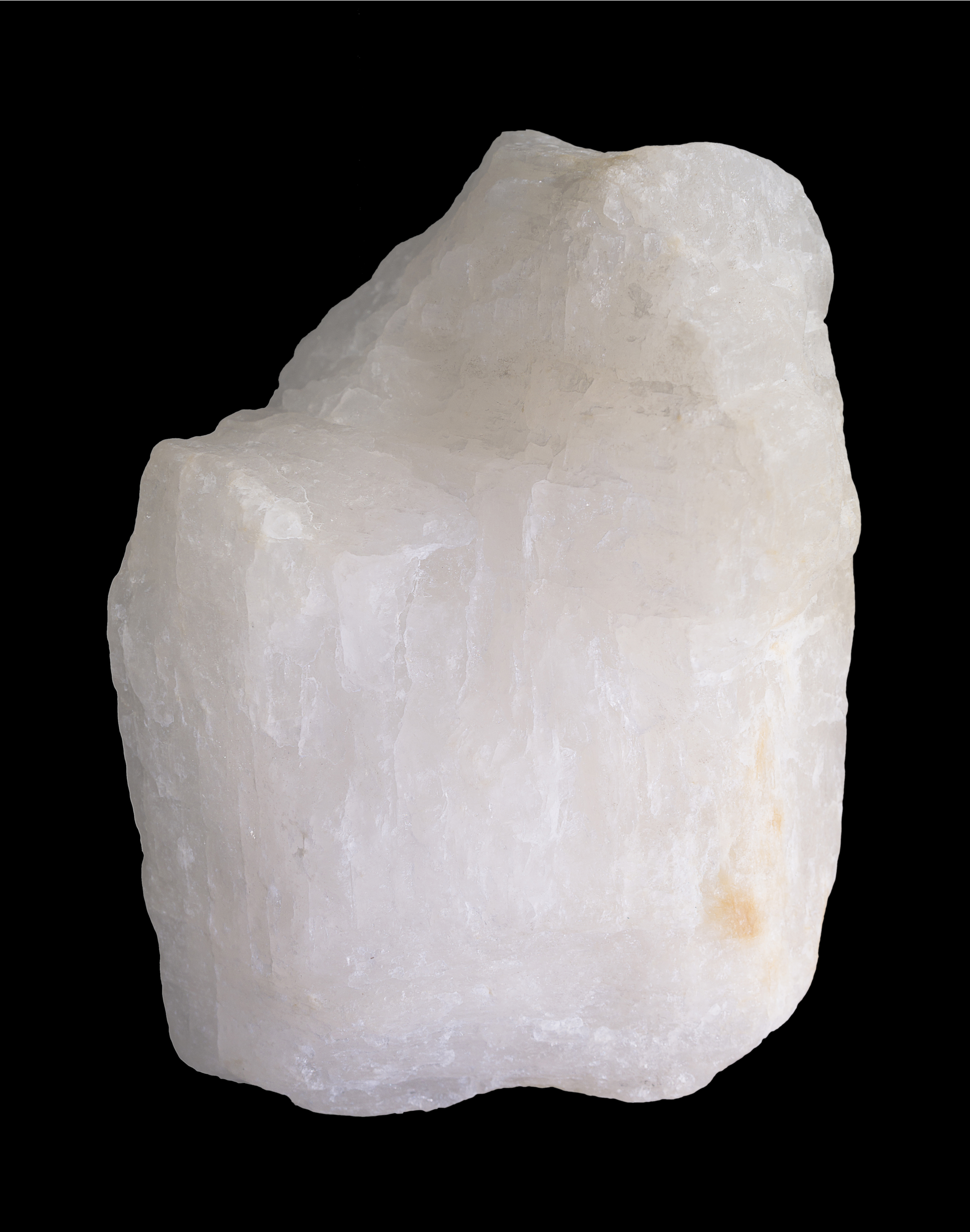 Cryolite – topotype -Former collection of the Faculty of Pharmacy of Paris Locality: Ivigtut Cryolite deposit, Ivittuut (Ivigtut), Arsuk Firth, Arsuk, Kitaa (West Greenland) Province, Greenland Size: 8.8 x 6.7 x 5 cm